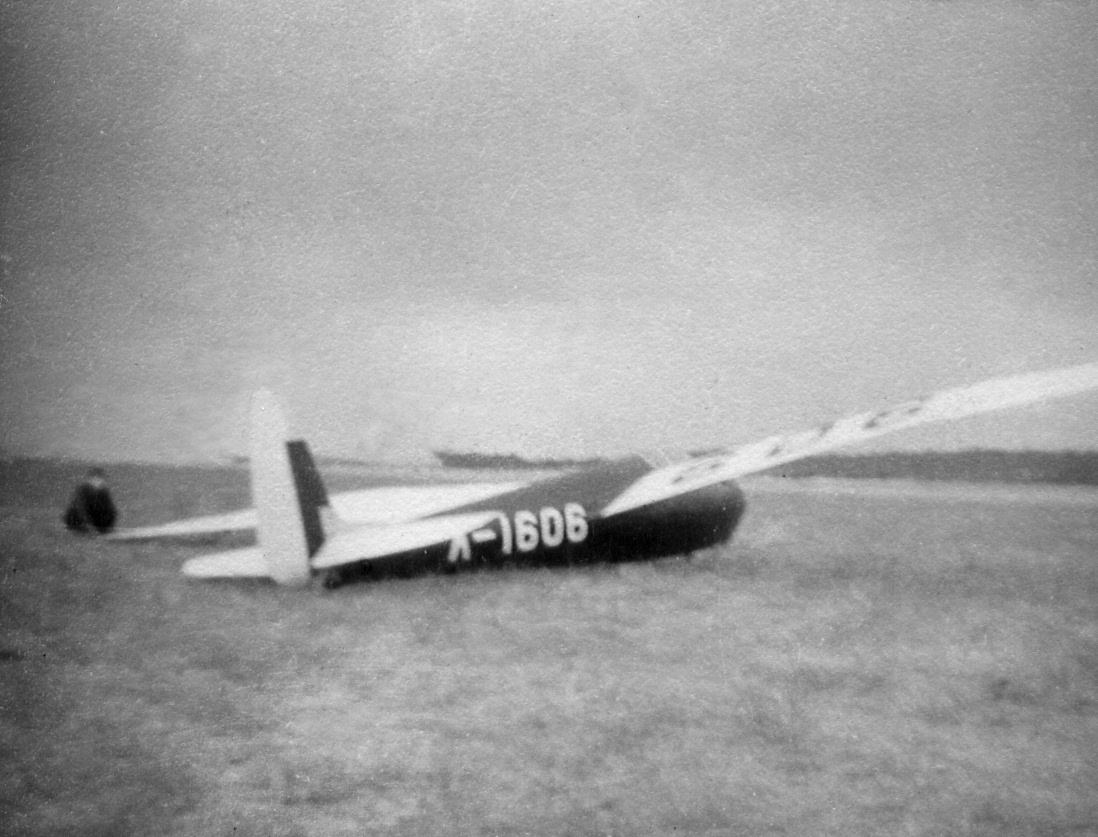 A-1606, the second Maeda 703, Japanese record-breaker